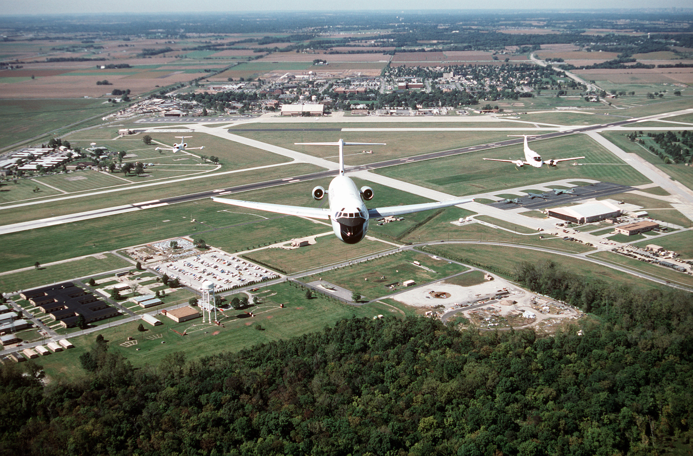 An air-to-air, front view of a McDonnell Douglas built C-9A Nightingale aircraft leading a formation that includes (left) a C-21A and a C-12F over the ramps and runways of SCOTT. All aircraft are assigned to the 375th Airlift Wing, Air Mobility Command.Location: SCOTT AIR FORCE BASE, ILLINOIS (IL) UNITED STATES OF AMERICA (USA)